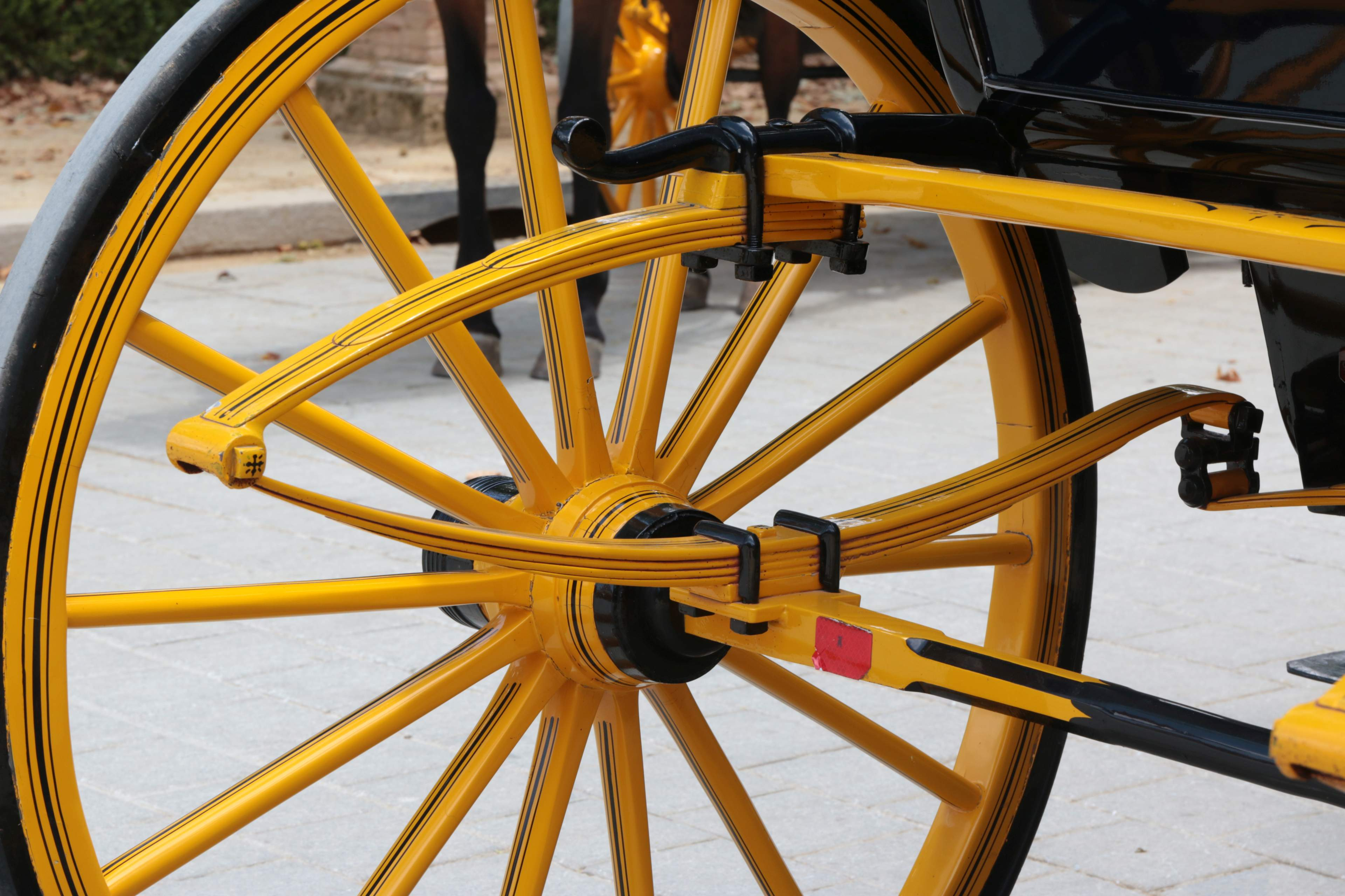 three-quarter-elliptic leaf spring on carriage. Sevilla, Spain 2019.